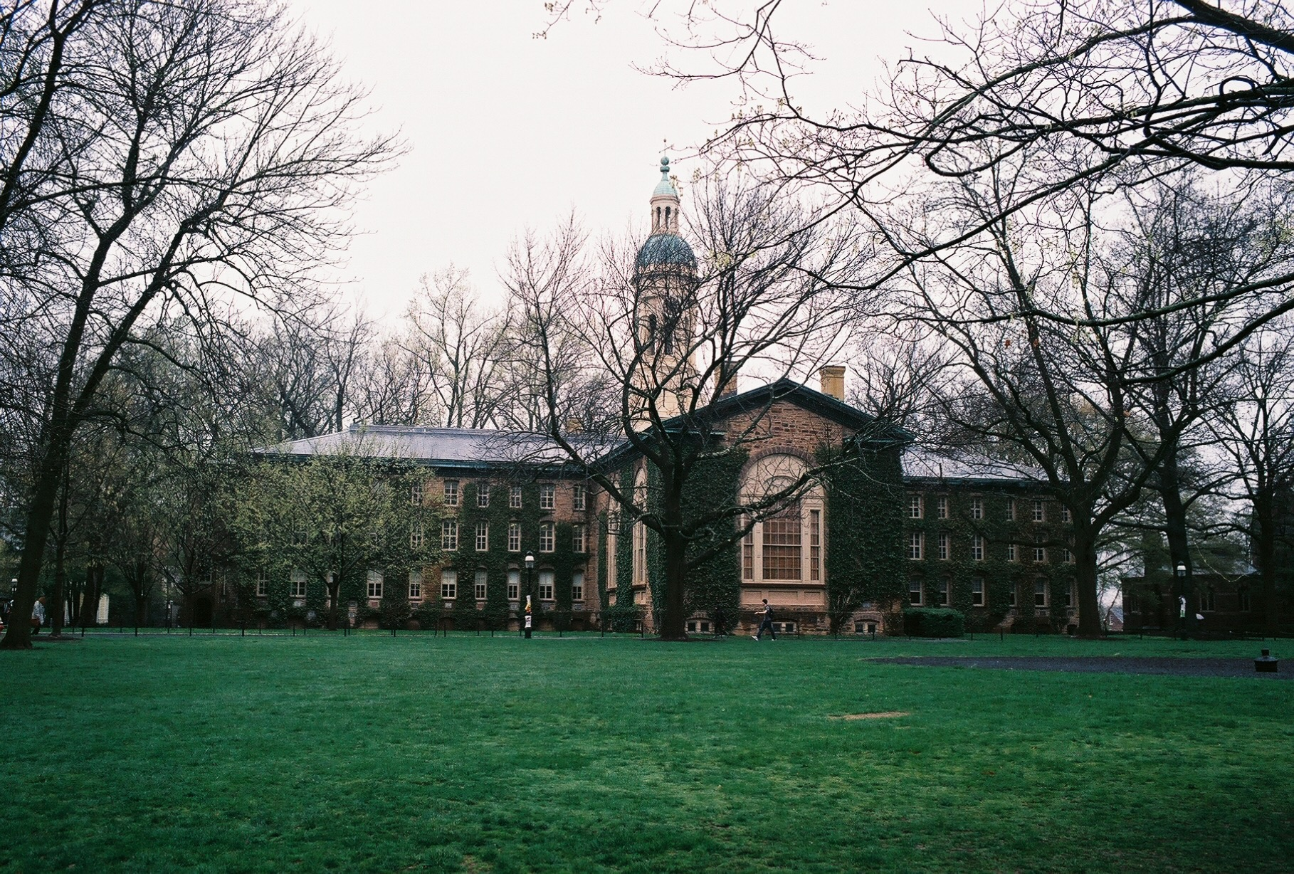 Nassau Hall at Princeton University on a rainy day. Shot with a Leica M6, w/ unknown C41 film.